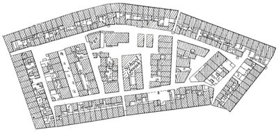 Map of Mea Shearim